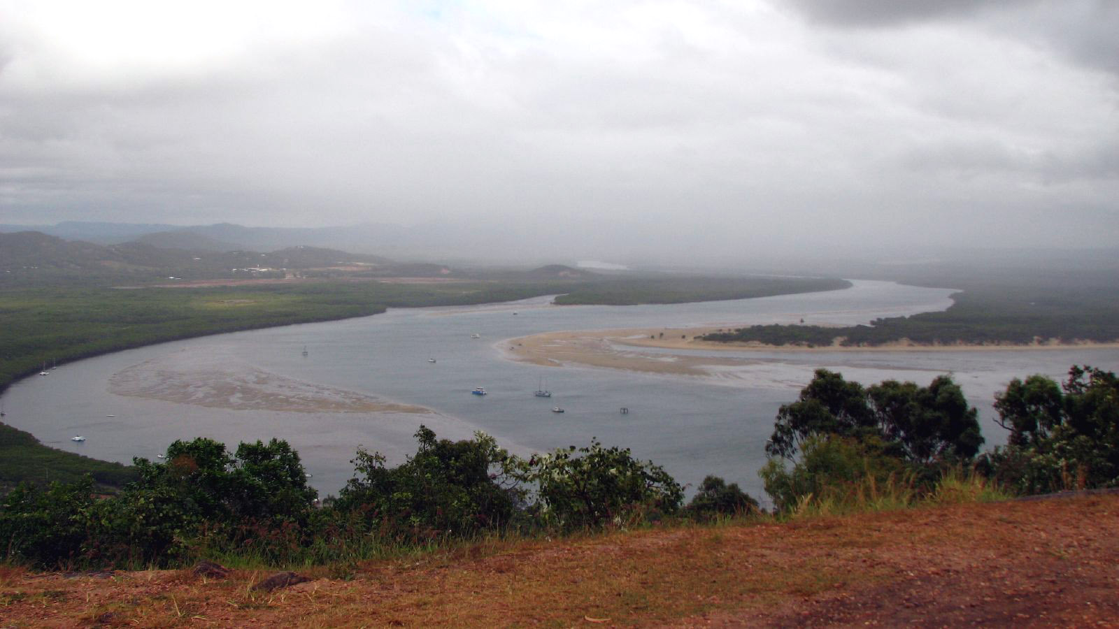 Endeavour River, Cooktown, Queensland, Australia